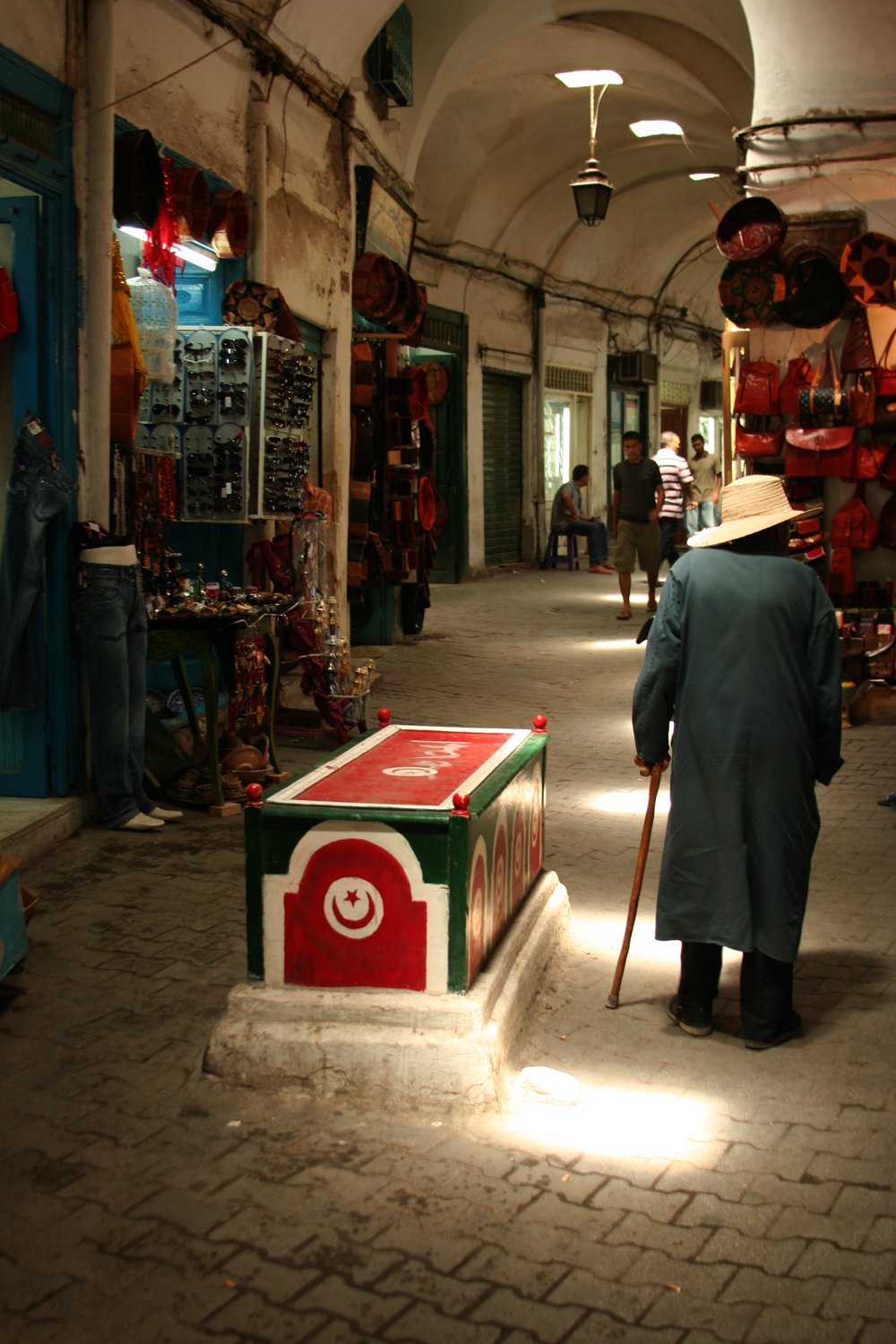 Tomb of the Unknown Soldier in a medina quarter alley in Tunis, Tunisia.